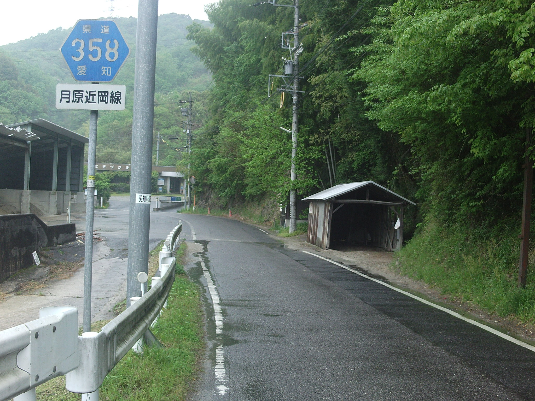 Aichi prefectural road No.358 in Chikaokacho, Toyota, Aichi.